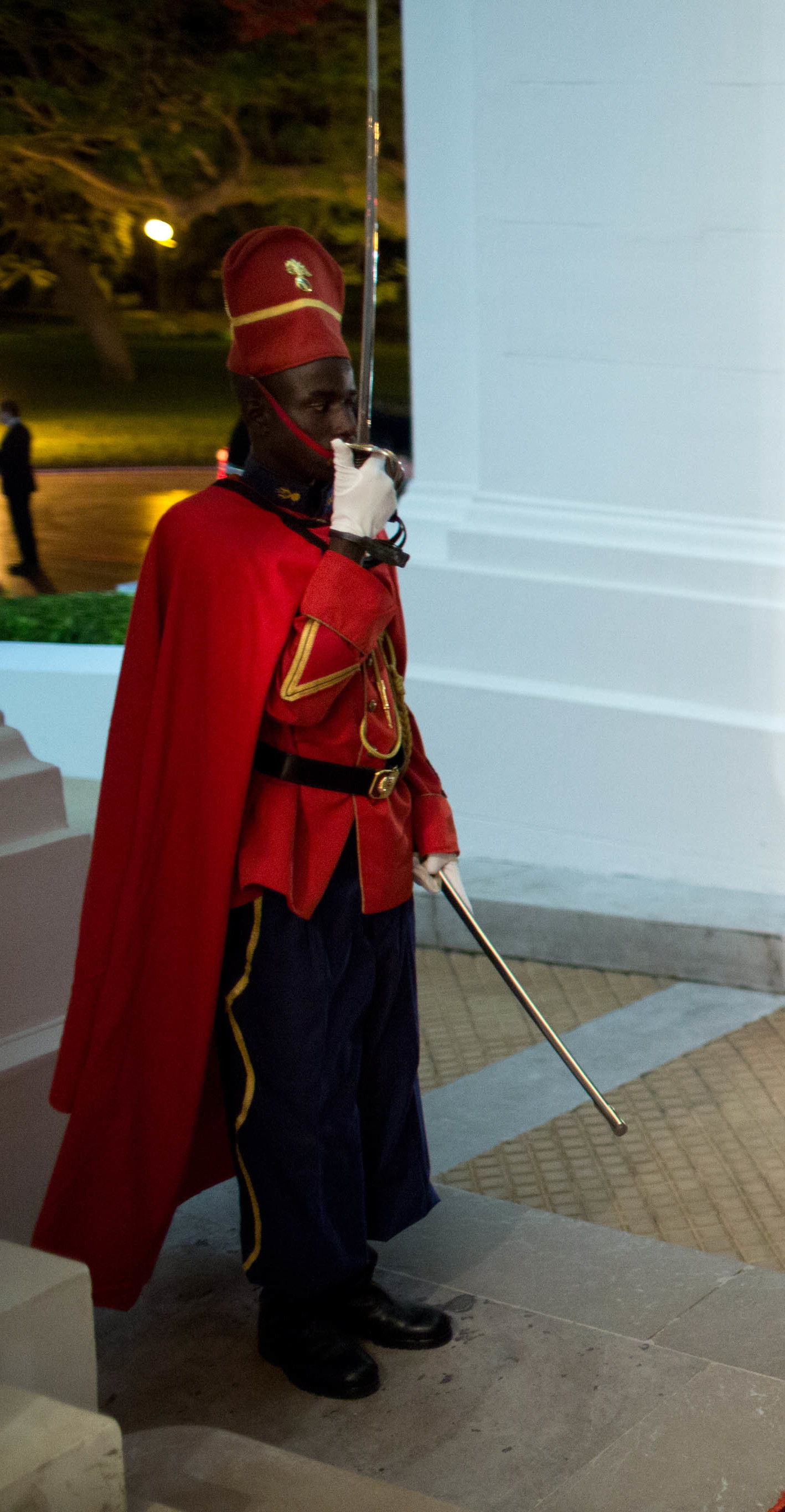 President Barack Obama and First Lady Michelle Obama arrive for an official dinner at the Presidential Palace in Dakar, Senegal, June 27, 2013. (Official White House Photo by Pete Souza)